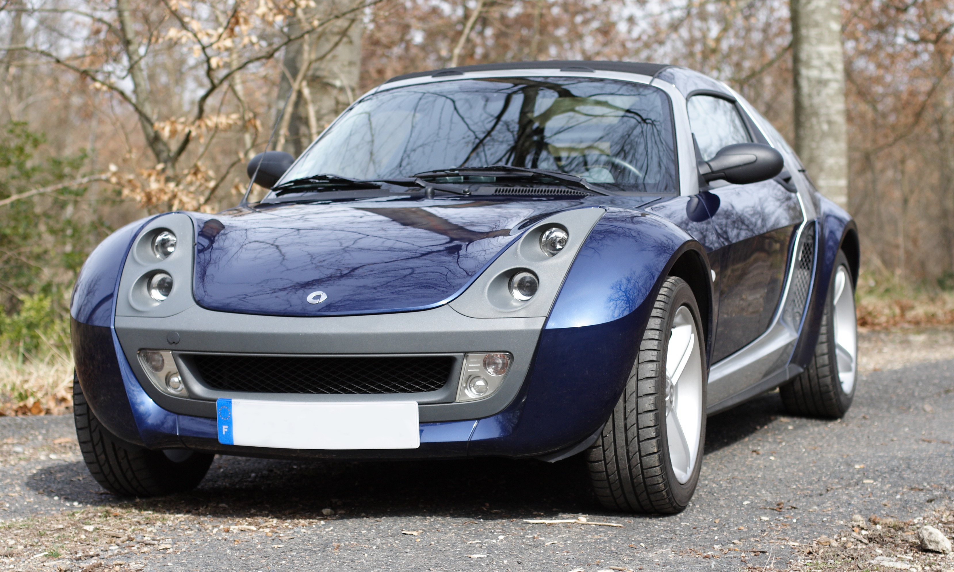 Smart Roadster Coupé. This is a 2004 model, serial number 37040 out of 43091, with a Star Blue (C85L/EAF) paint and grey Tridion (C02L/EB2). It is equipped with sport pack, including 3-spoke 16" Spikeline alloys visible here and comfort pack including rain detection sensor visible on the windshield. Picture taken with a Canon EOS 350D and Canon 50mm F1.4 @ F2.8.